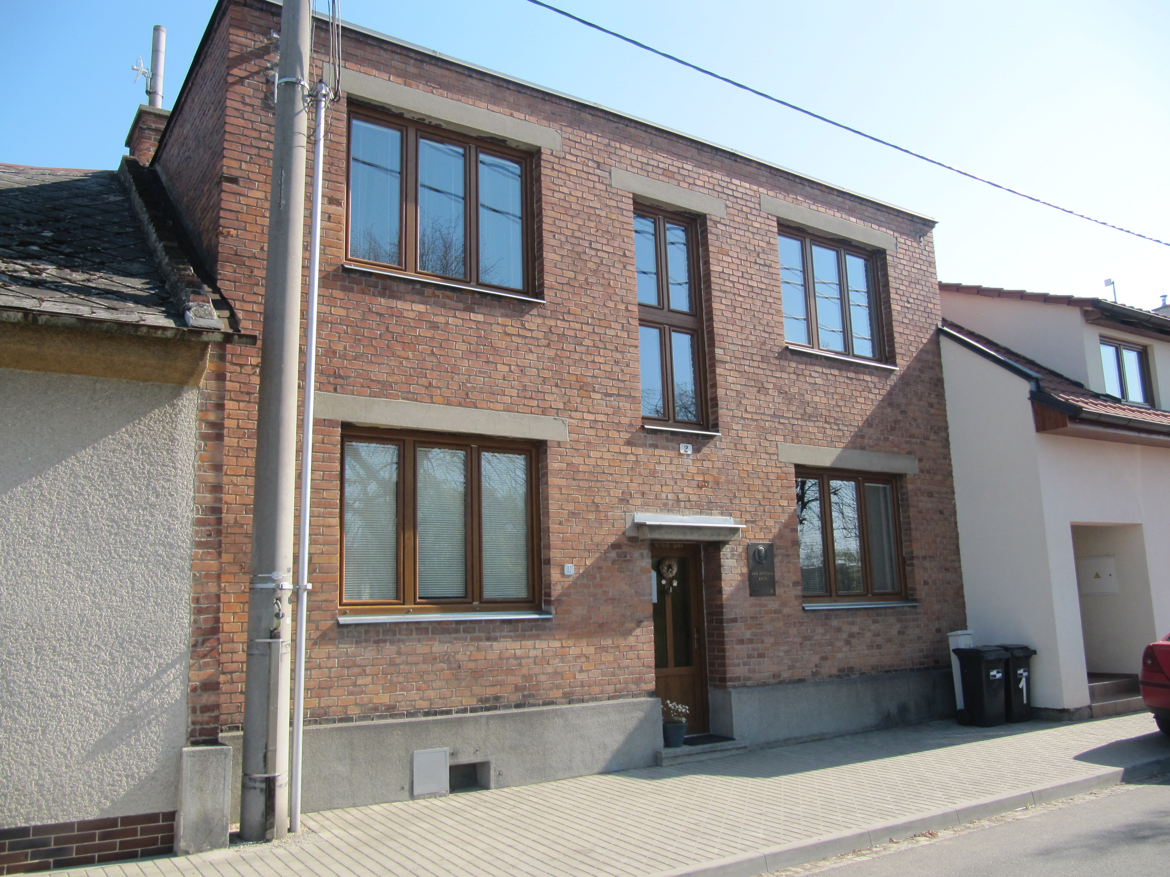 Uherské Hradiště, part Rybárny, Czech Republic. House on the site of the birthplace of Jan Antonin Bata.